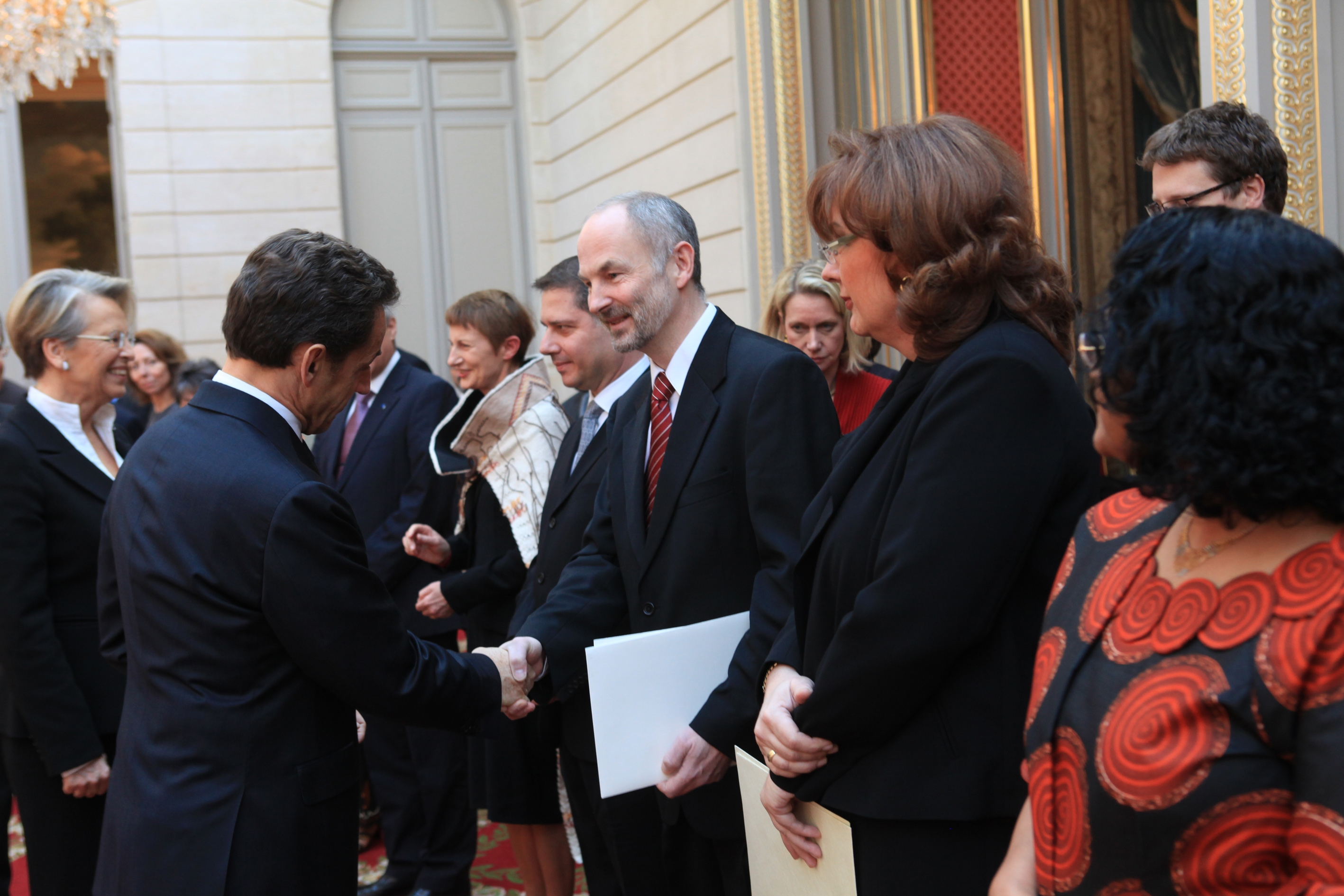 Ambassador of the Republic of Estonia to the Republic of France Sven Jürgenson presented his credentials to French President Nicolas Sarkozy © Presidence de la République / L.BLEVENNEC